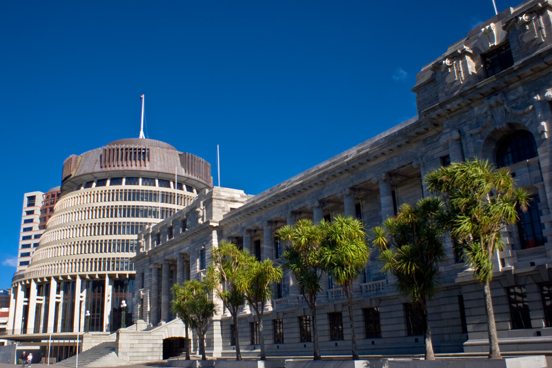 A new version of the image File:NZParliamentbuildings.JPG to be used on portuguese wikipedia.